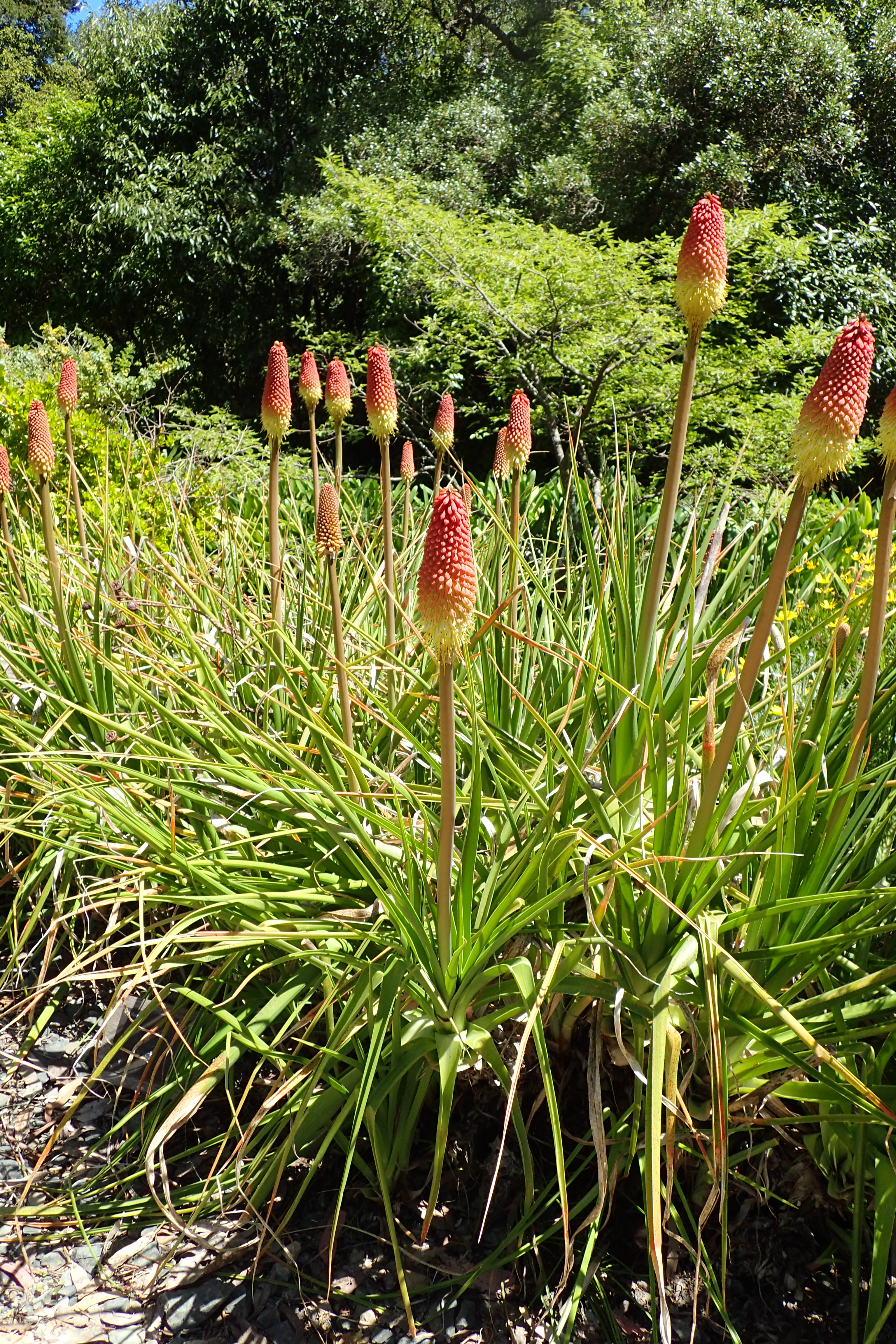 Kniphofia northiae in Dunedin Botanic Garden